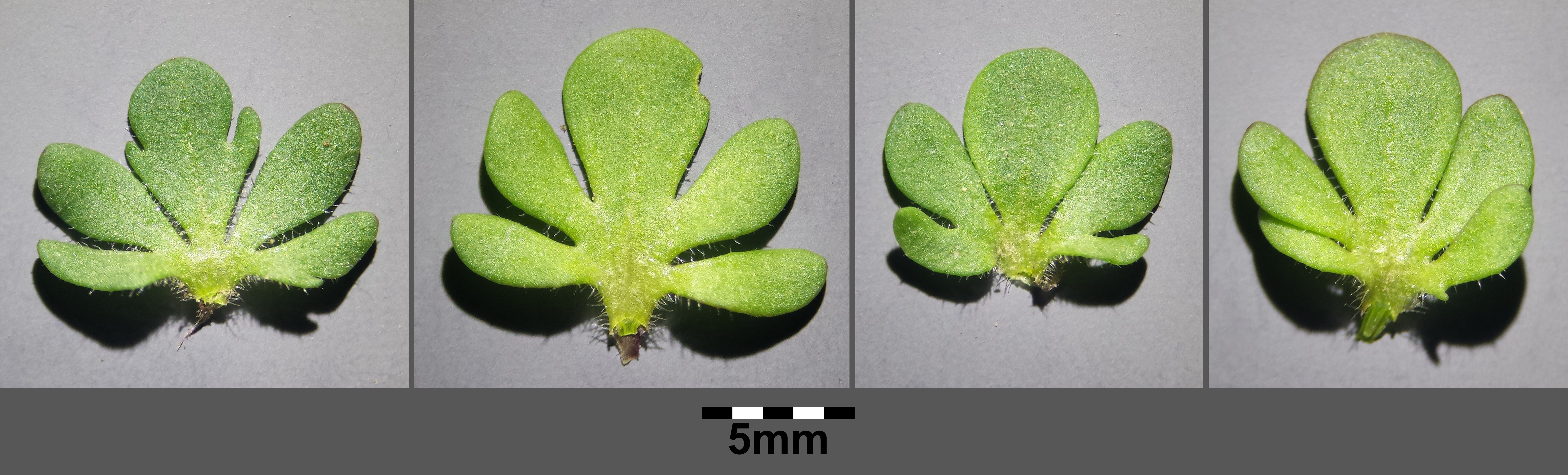 Bracts Taxonym: Veronica triphyllos ss Fischer et al. EfÖLS 2008 ISBN 978-3-85474-187-9 (det. M. A. Fischer) Location: near Schleinbach, district Mistelbach, Lower Austria - ca. 300 m a.s.l. Habitat: way side